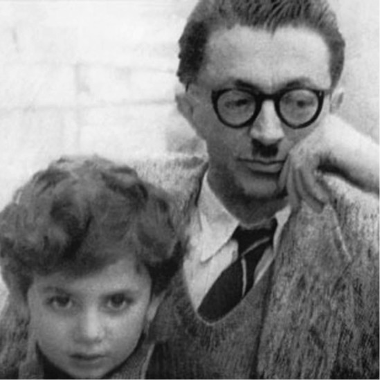 Sadegh Hedayat and Roozbeh, son or Sadegh Choubak